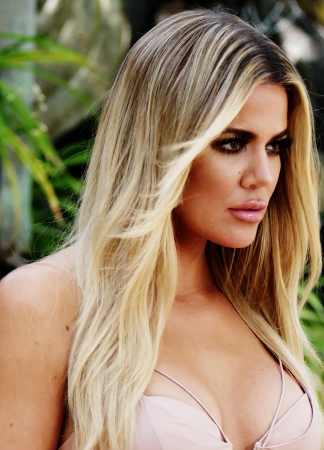 Khloe Kardashian in a photoshoot for Glamour Mexico